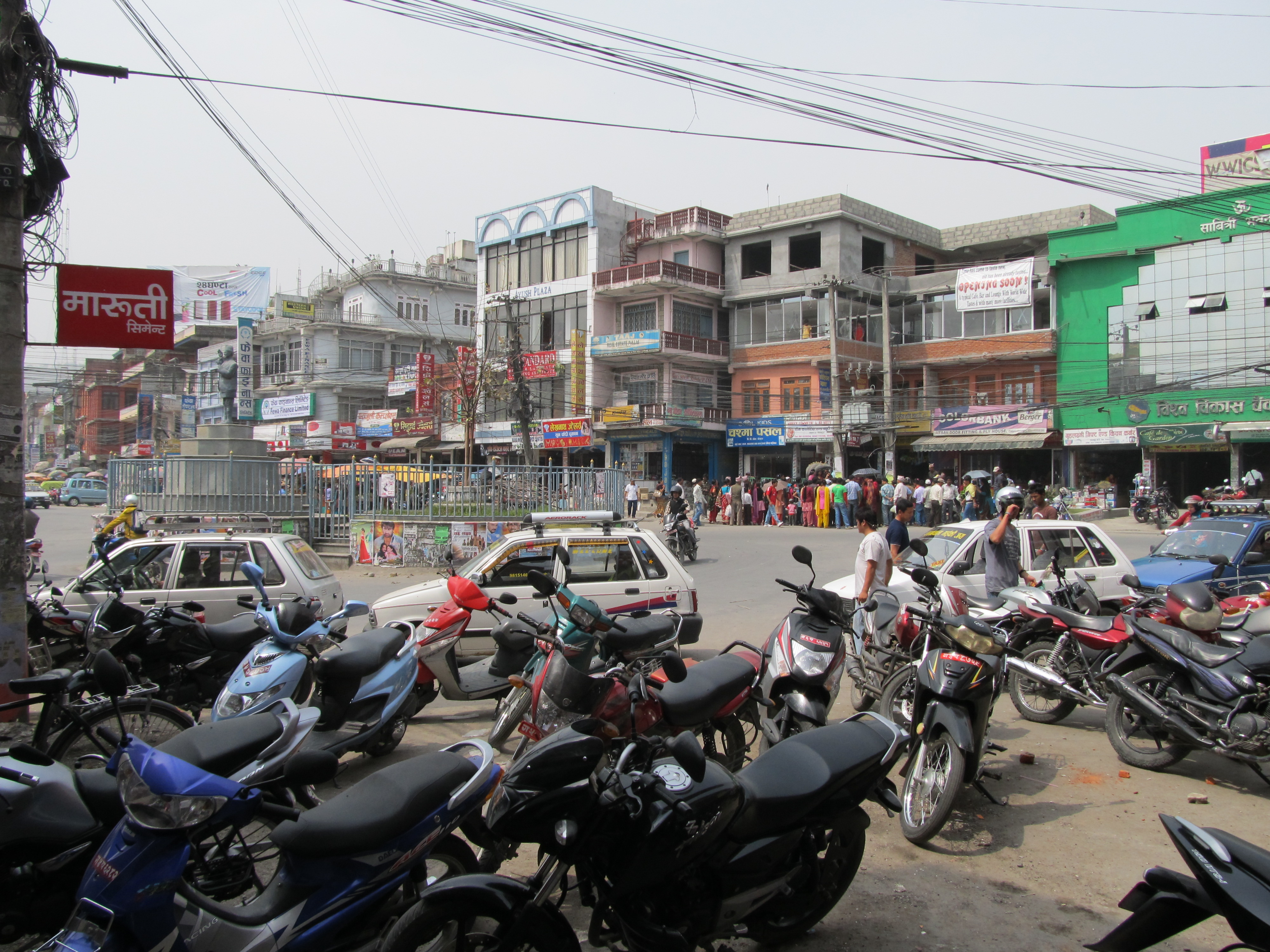 Major intersection in Pokhara: Chipledhunga and New Road joining from the left